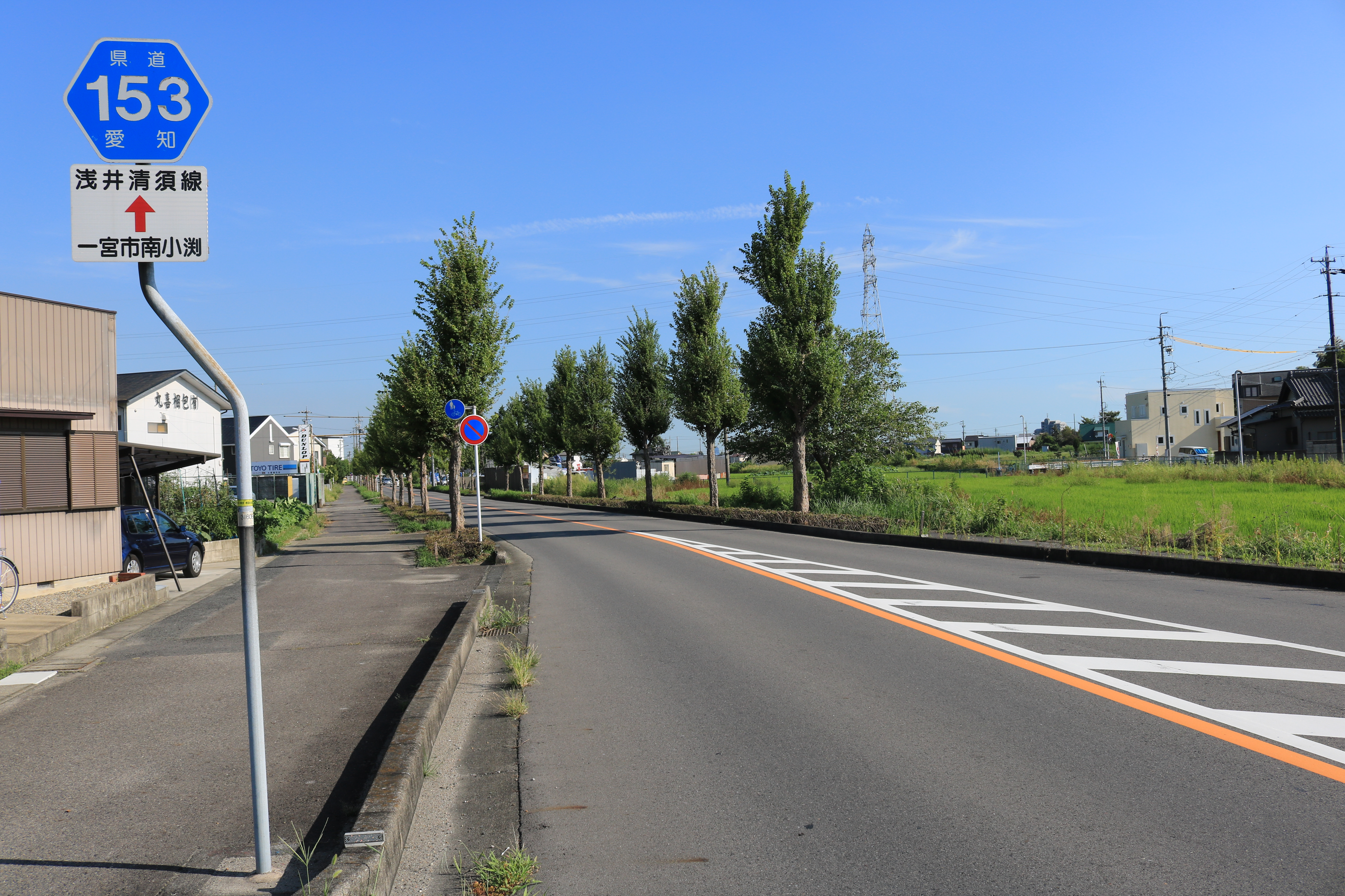 Aichi Prefectural Road Route 153 in Minamiobuchi, Ichinomiya, Aichi prefecture, Japan.